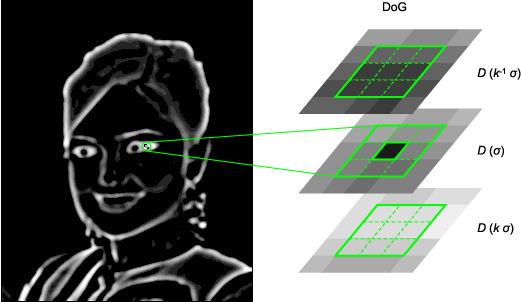 Image vision : Difference of Gradients example.